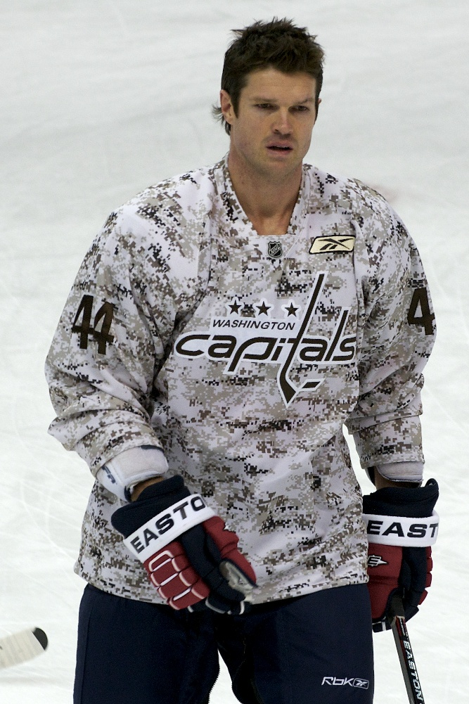 Jason Arnott of the Washington Capitals